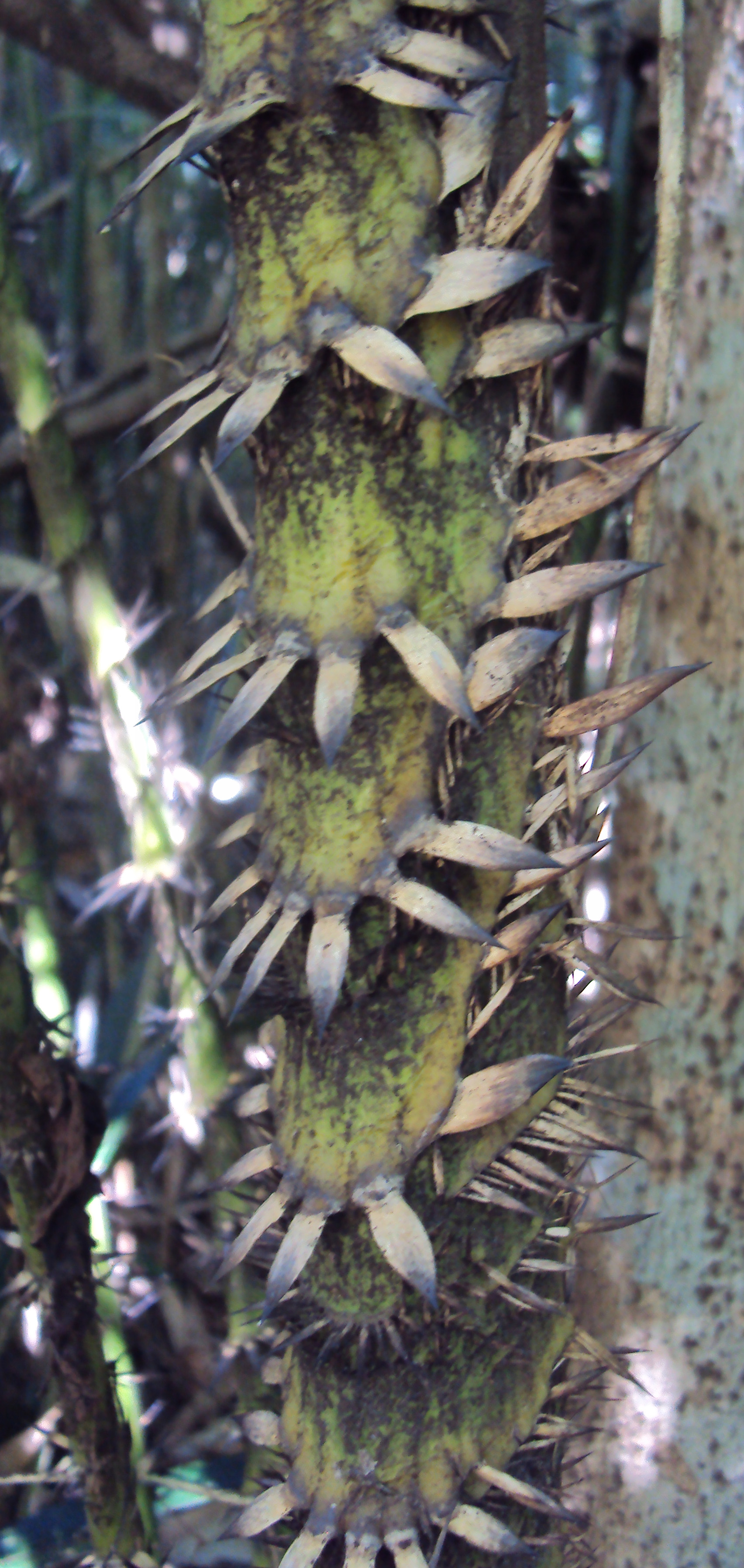 Calamus rotang